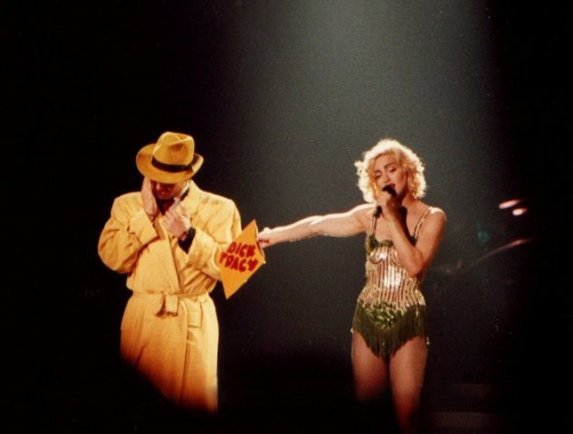 Photo taken during one of the concerts in 1990